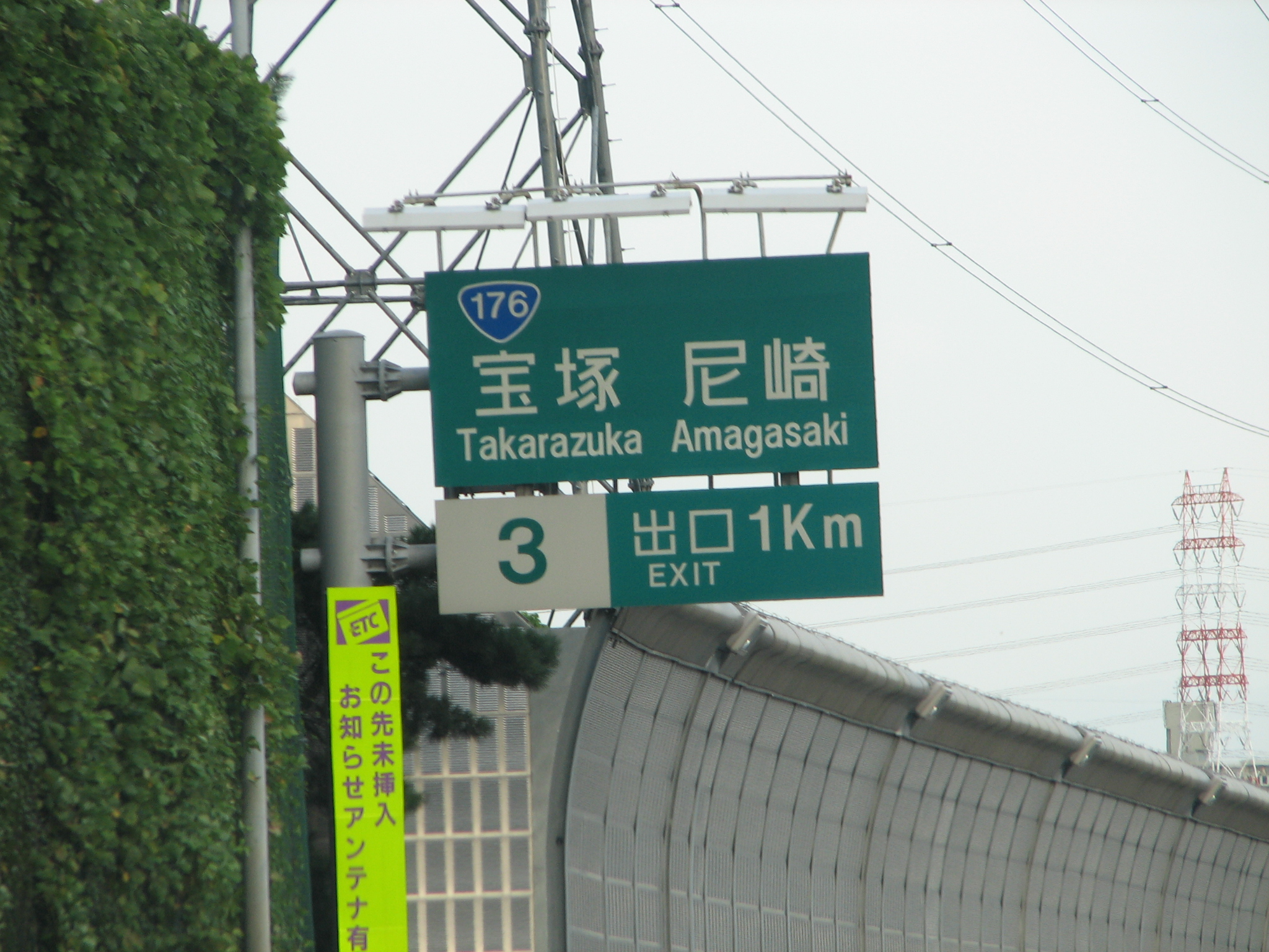 Takarazuka IC